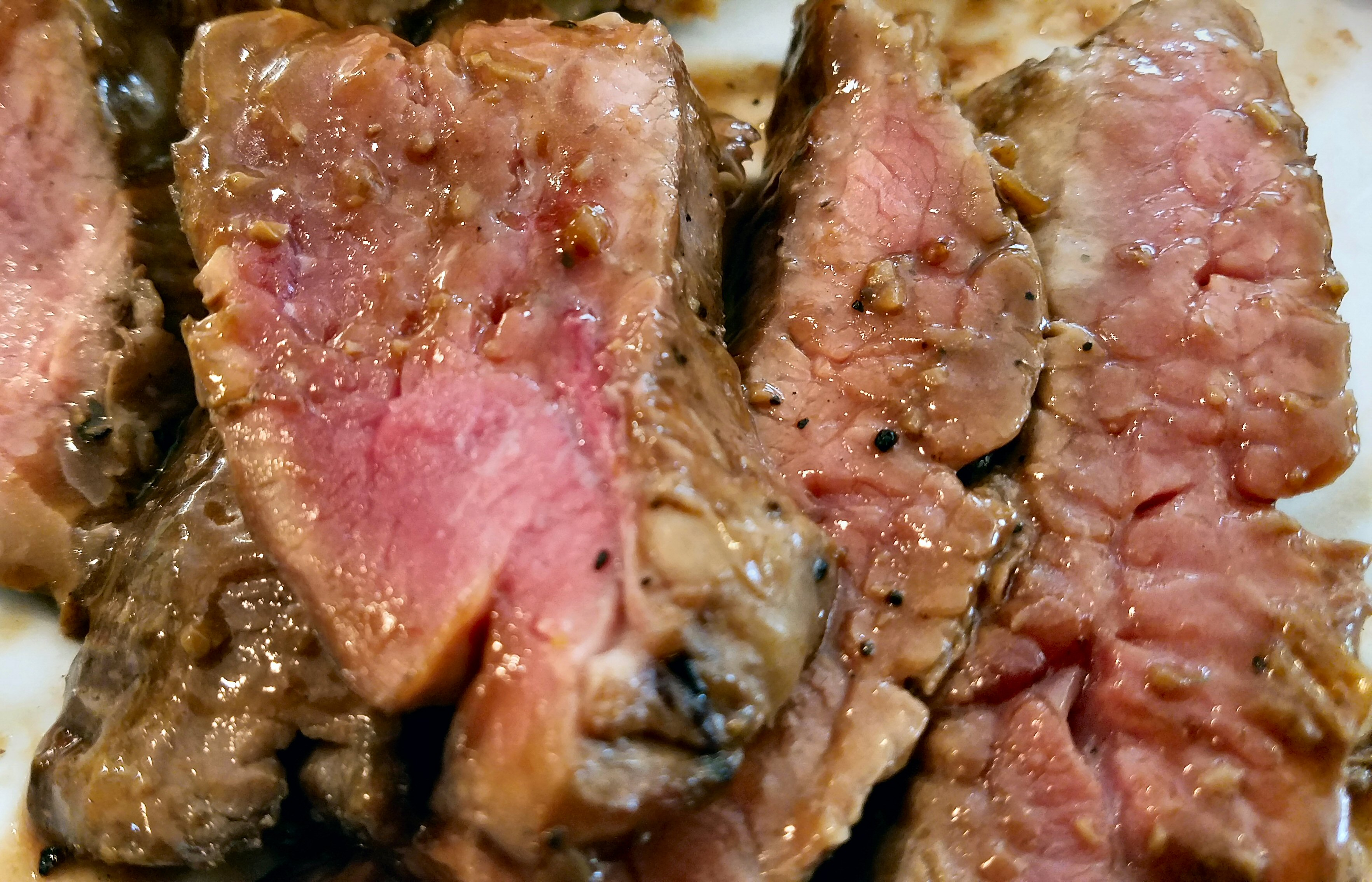 Flank steak with gravy